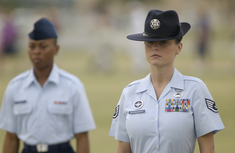 LACKLAND AIR FORCE BASE, San Antonio, Texas -- Staff Sgt. Michelle Crossmanhart stands at attention during a rite of passage shared by all enlisted Airmen -- the Basic Military Training graduation parade. The parade of 15 squadrons marked the end of the six-week training period for about 750 of the newest Airmen. Sergeant Crossmanhart is a military training instructor with the 323rd Training Squadron.